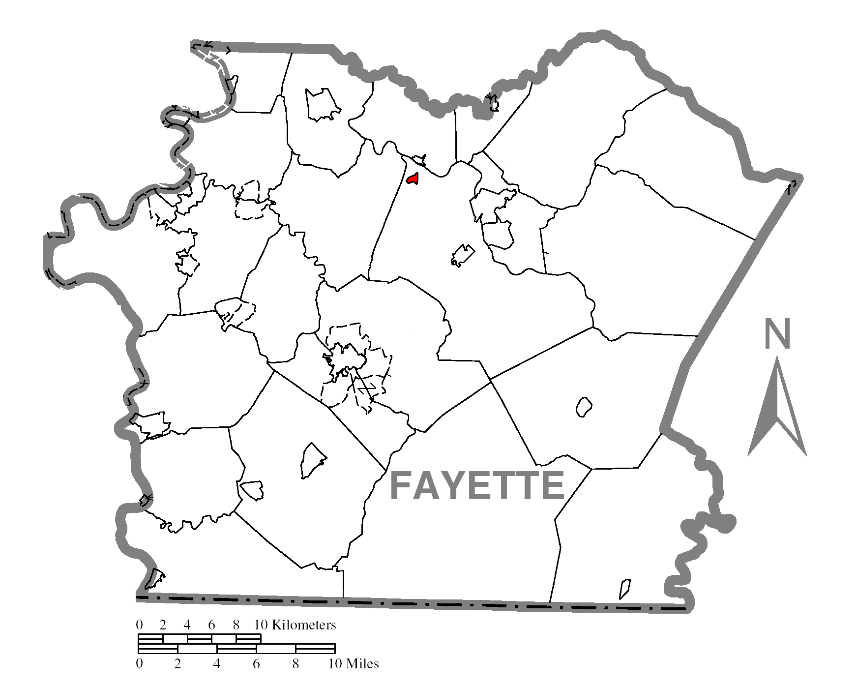 Map of Fayette County higlighting Vanderbilt.